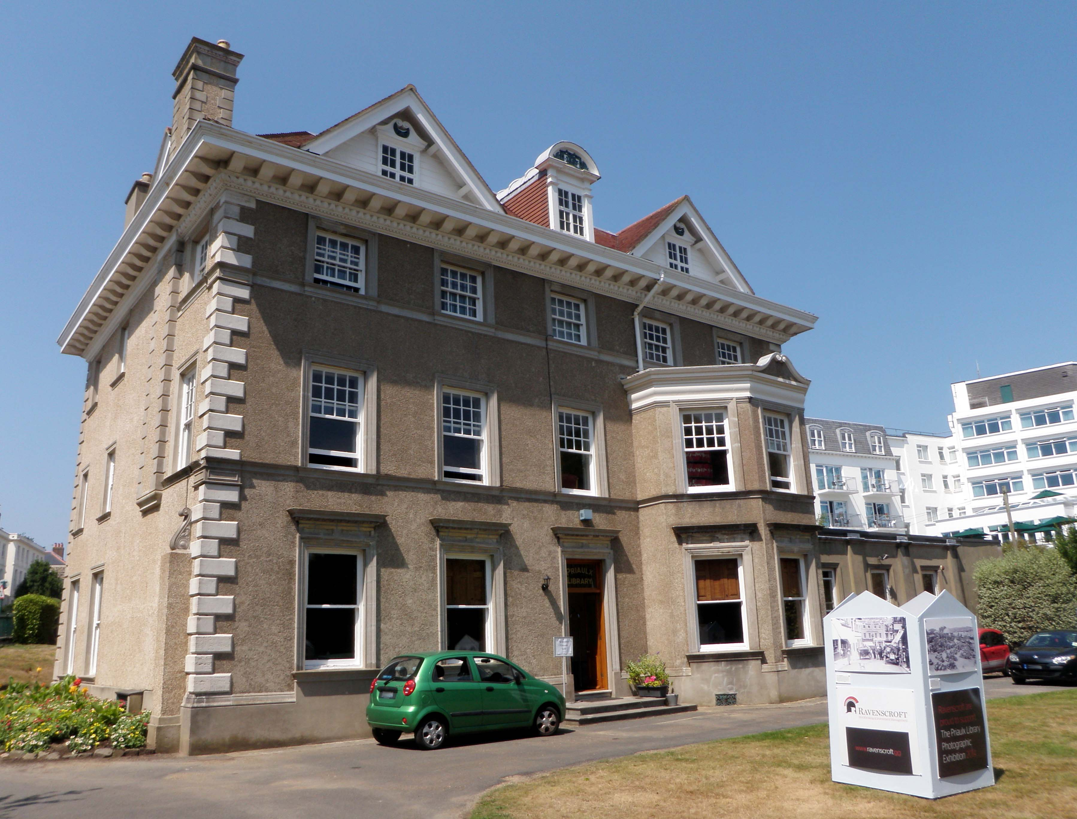 Candie House, the building housing the Priaulx Library in Saint Peter Port, Guernsey. A photographic exhibition relating to Guernsey during the First World War was displayed on the lawn on front of the library building.